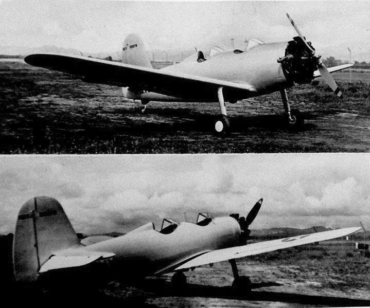 Lot 9431-6: Plastic Plane – Stronger Than Steel, circa 1942. This Timm S-160, 90 percent of it wood and plastic glue, is undergoing tests at a U.S. Naval Air Station preparatory to being put into mass production as a U.S. Navy training plane. The sleek, plastic-plywood plane, called “Aeromold” is said to be “stronger than steel.” Plastic glue, which impregnates the wood, prevents warping and buckling, while plastic construction, since it does not necessitate riveting or overlapping of plates, reduces air “drag.” Office of War Information photograph. (10/2/2015).